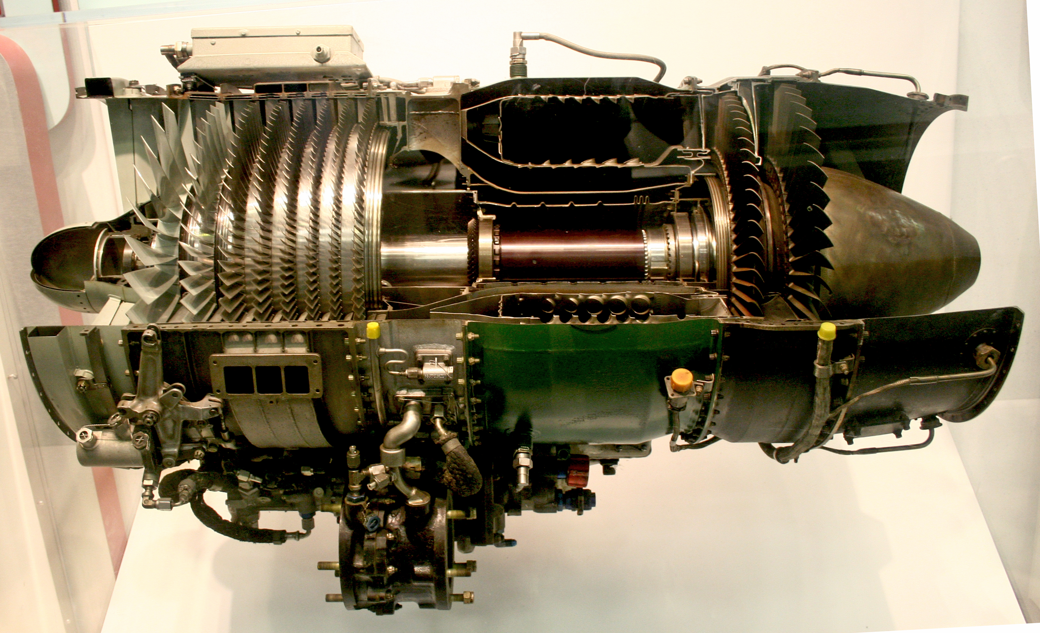 A General Electric J85-GE-17A turbojet engine (1970). This engine was used in a Cessna A-37 attack aircraft for ground-support missions during the Vietnam War.